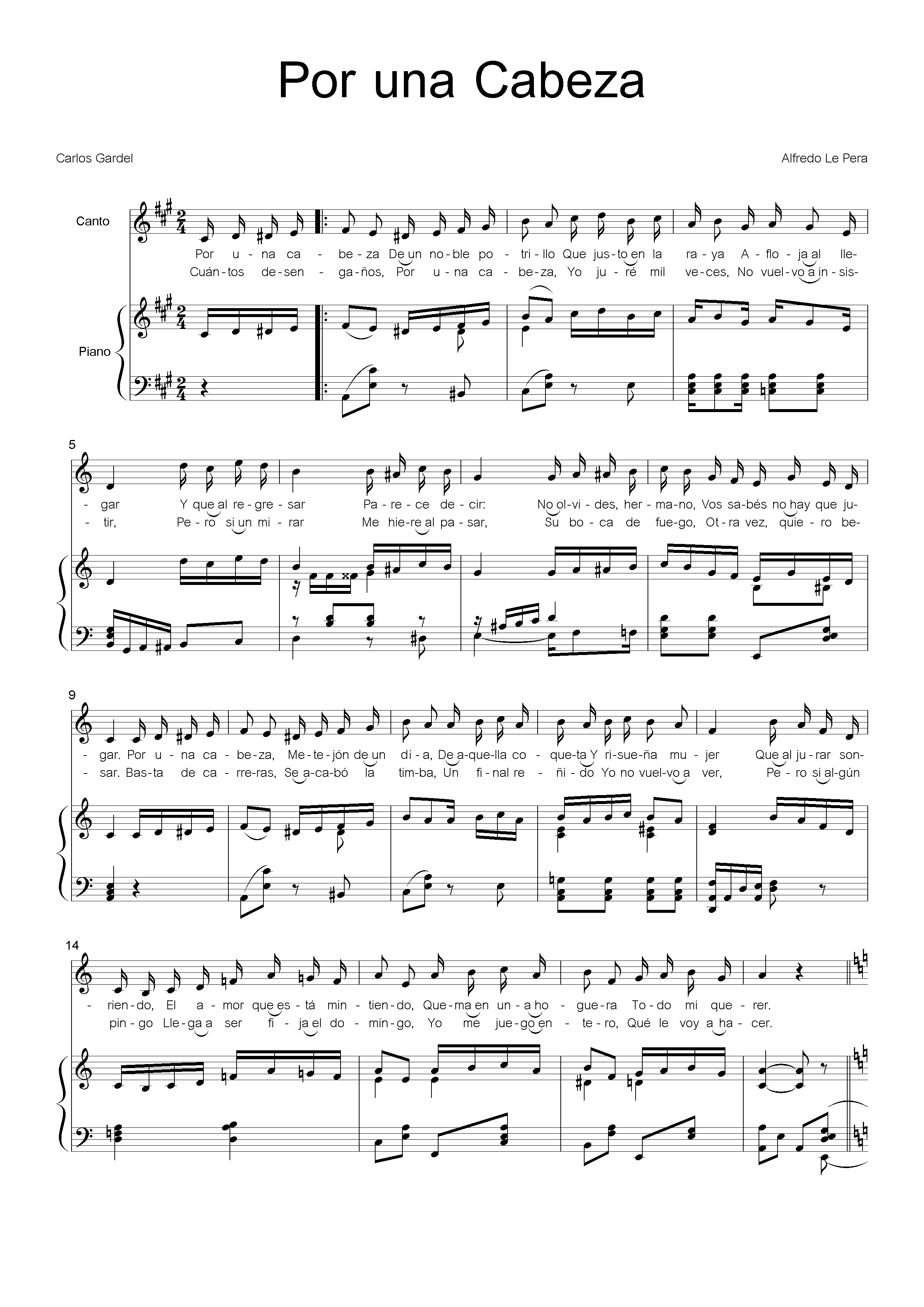 "Por una Cabeza" (sheet music) page 1 of 2. Recreated using Noteworthy Composer, then edited somewhat to restore some of the more unusual markup.